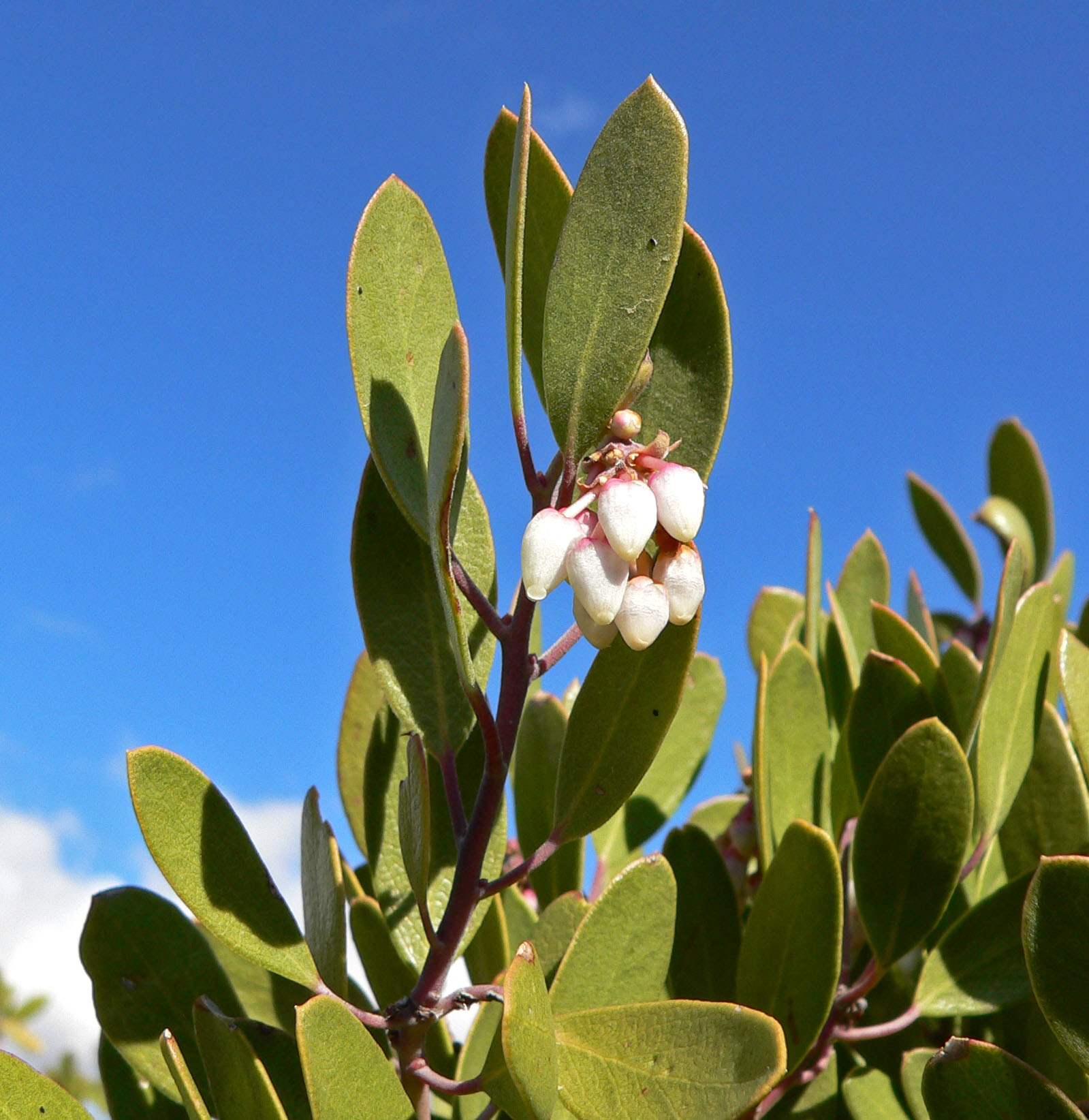 Arctostaphylos pungens in Red Rock Canyon, Spring Mountains, southern Nevada